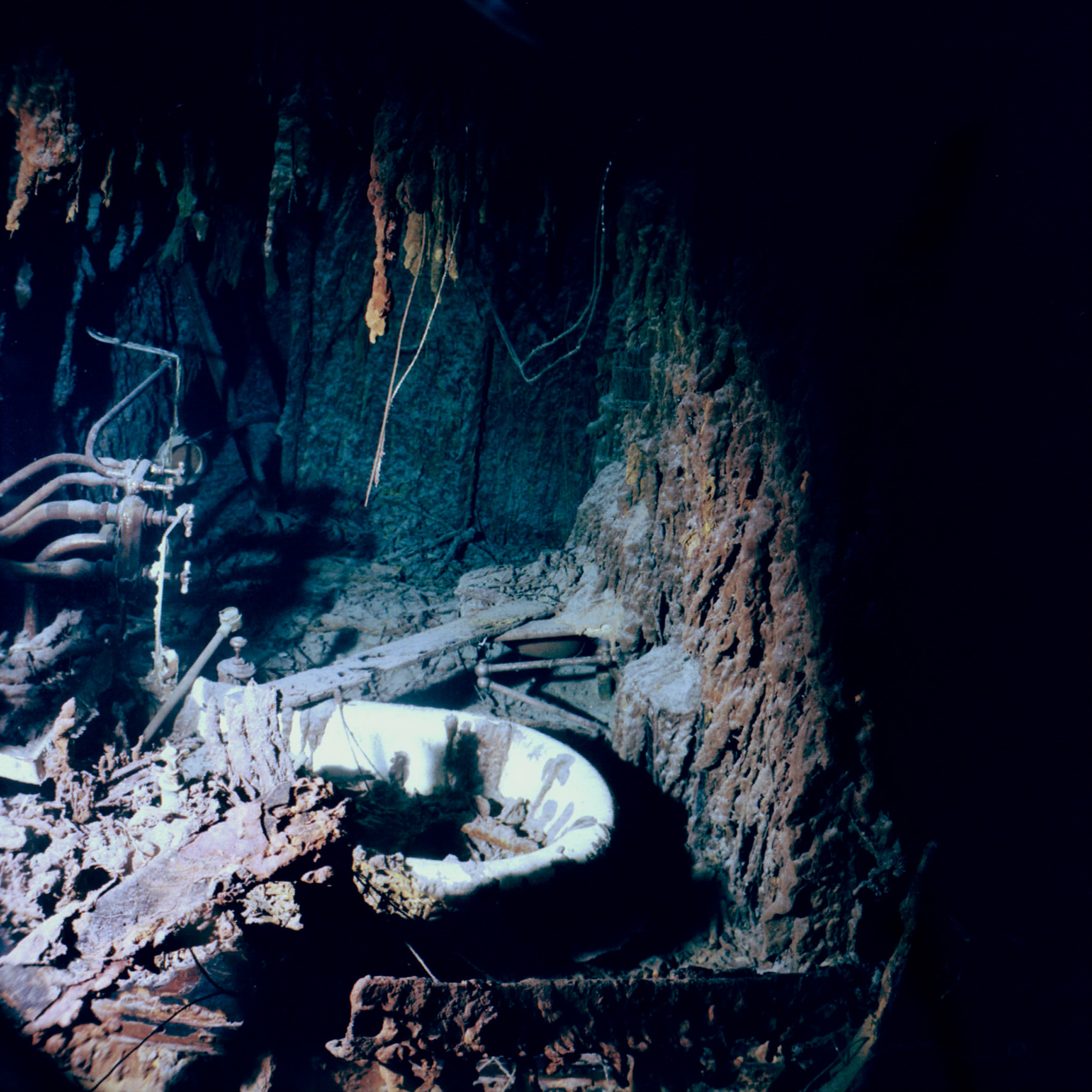 A view of the bathtub in Capt. Smith's bathroom. Rusticles are observed growing over most of the pipes and fixtures in the room.